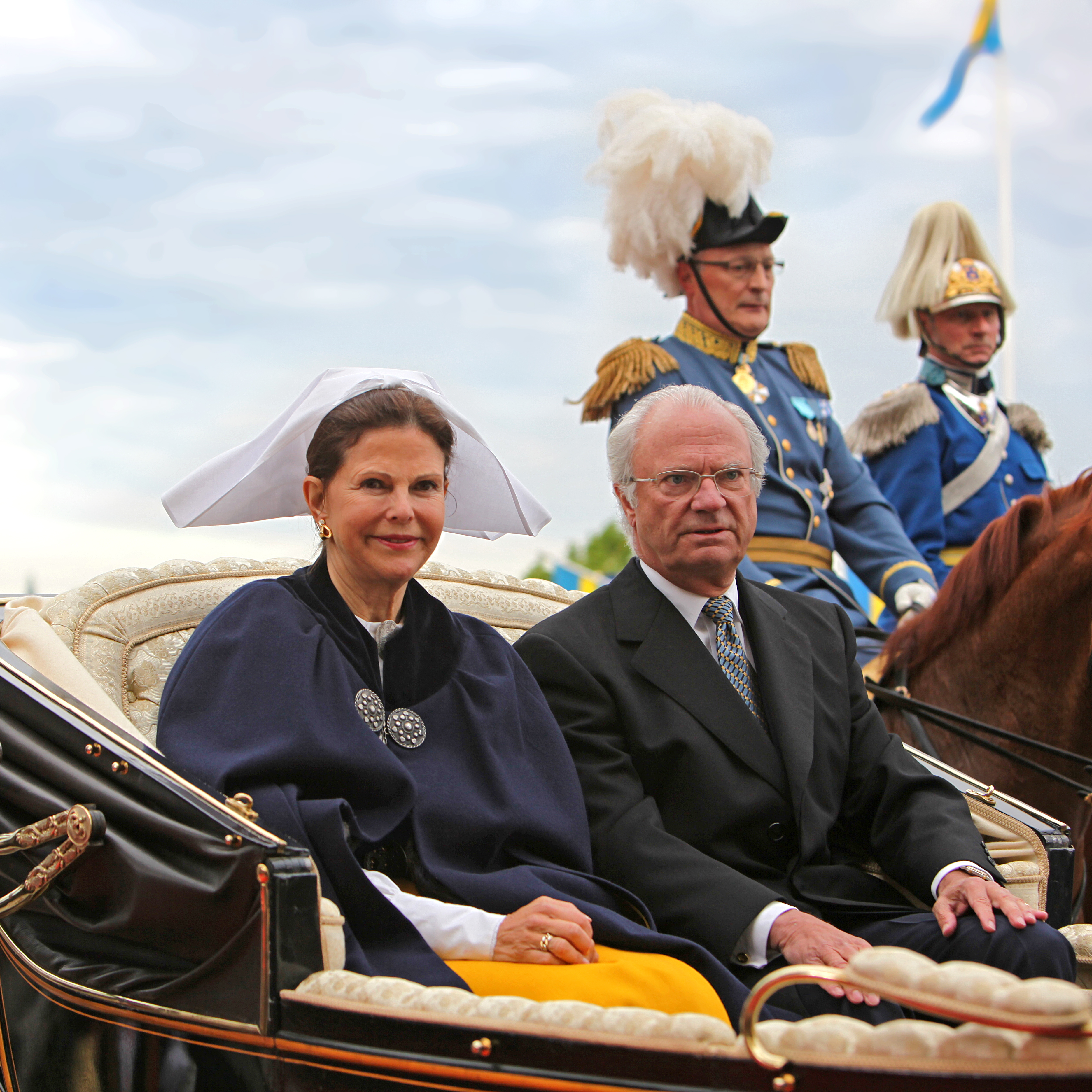 Their Majesties; The King and the Queen of Sweden